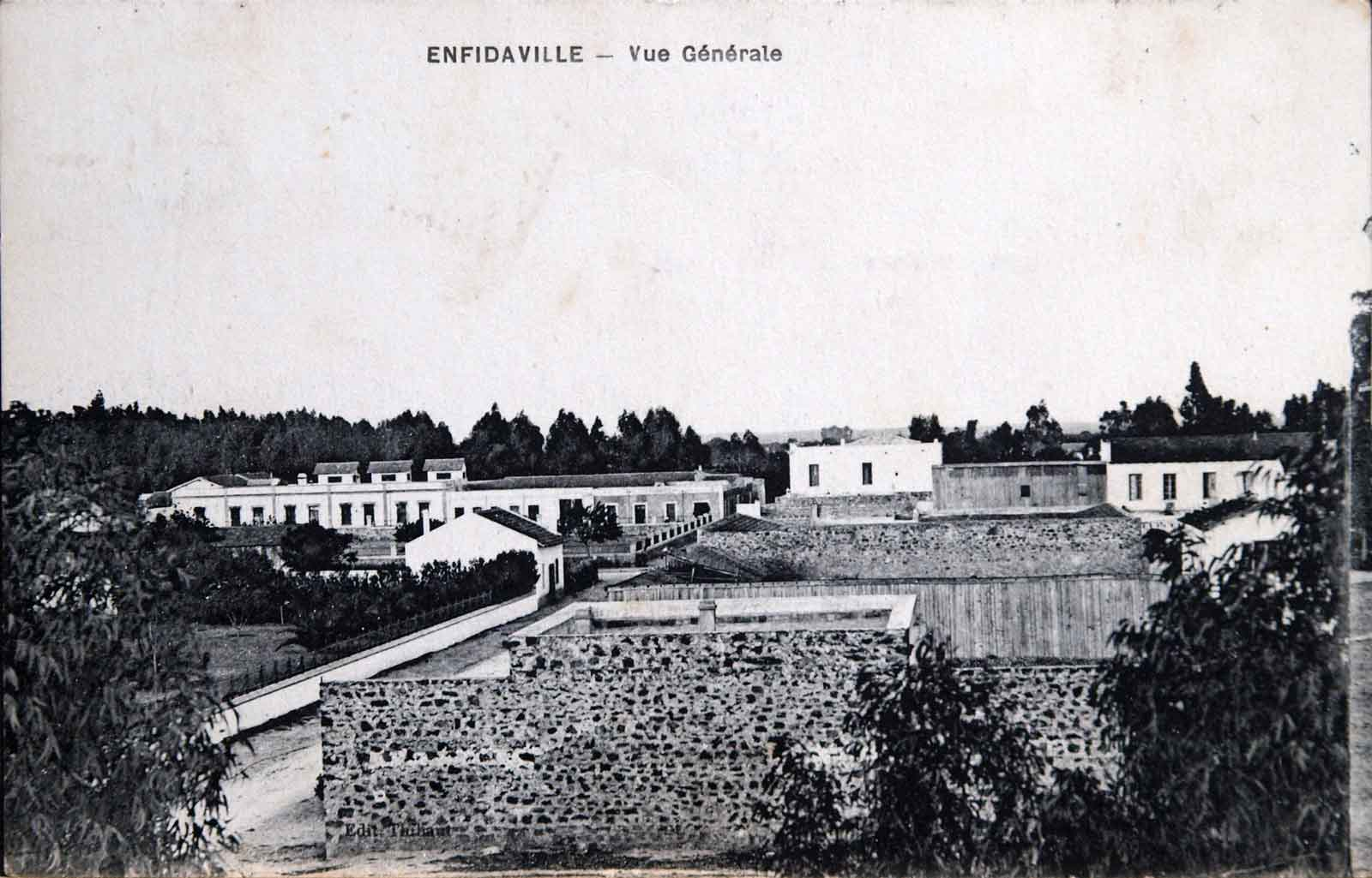 Enfidha Old Postcard - Tunisia